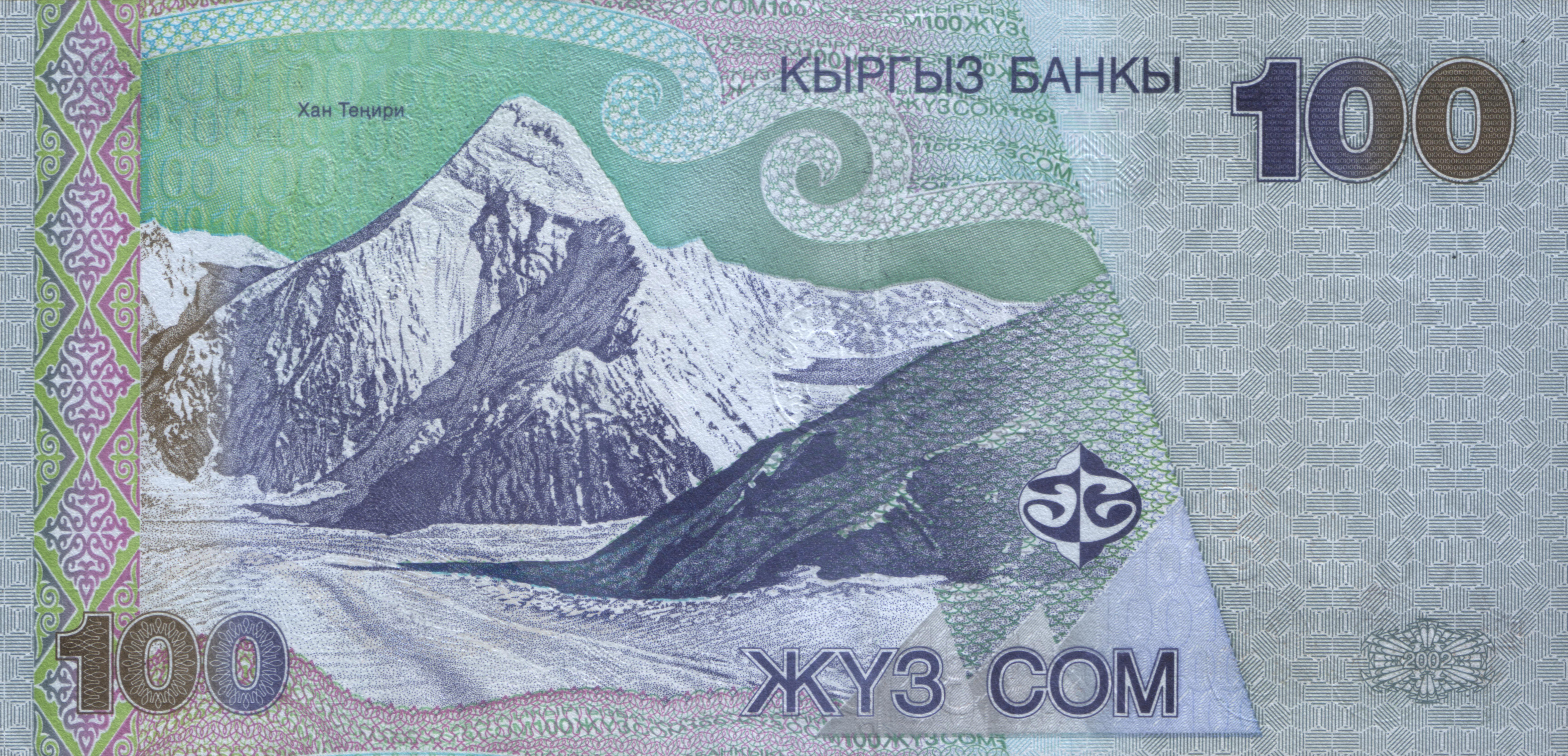 100 som of Kyrgyzstan (2002)